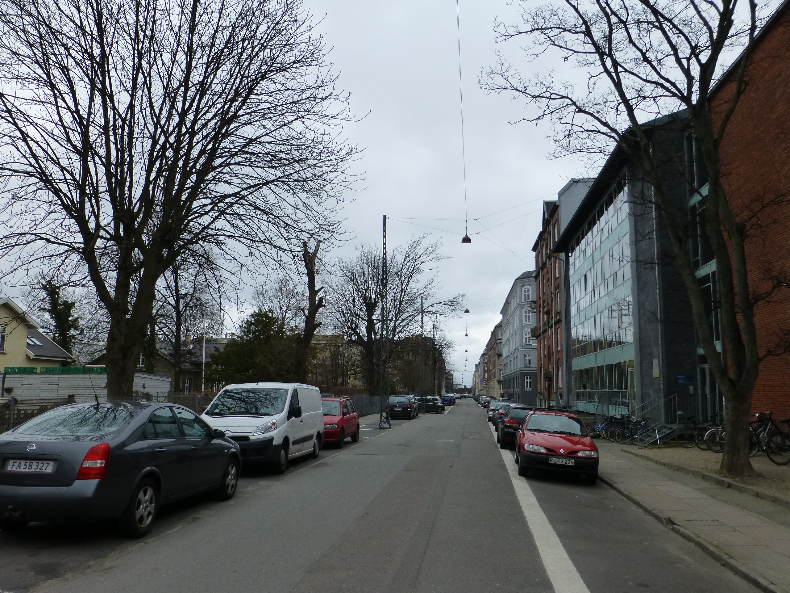 The street Gammel Kalkbrænderi Vej in Østerbro in Copenhagen.